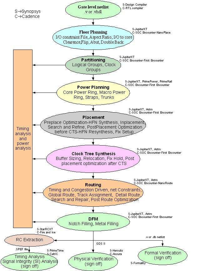 Basic ASIC Physical Design Flow